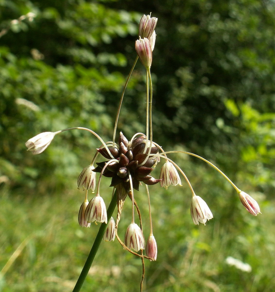 Inflorescence of Allium oleraceum. Flowers and bulbs. Near Ińsko (NW Poland)